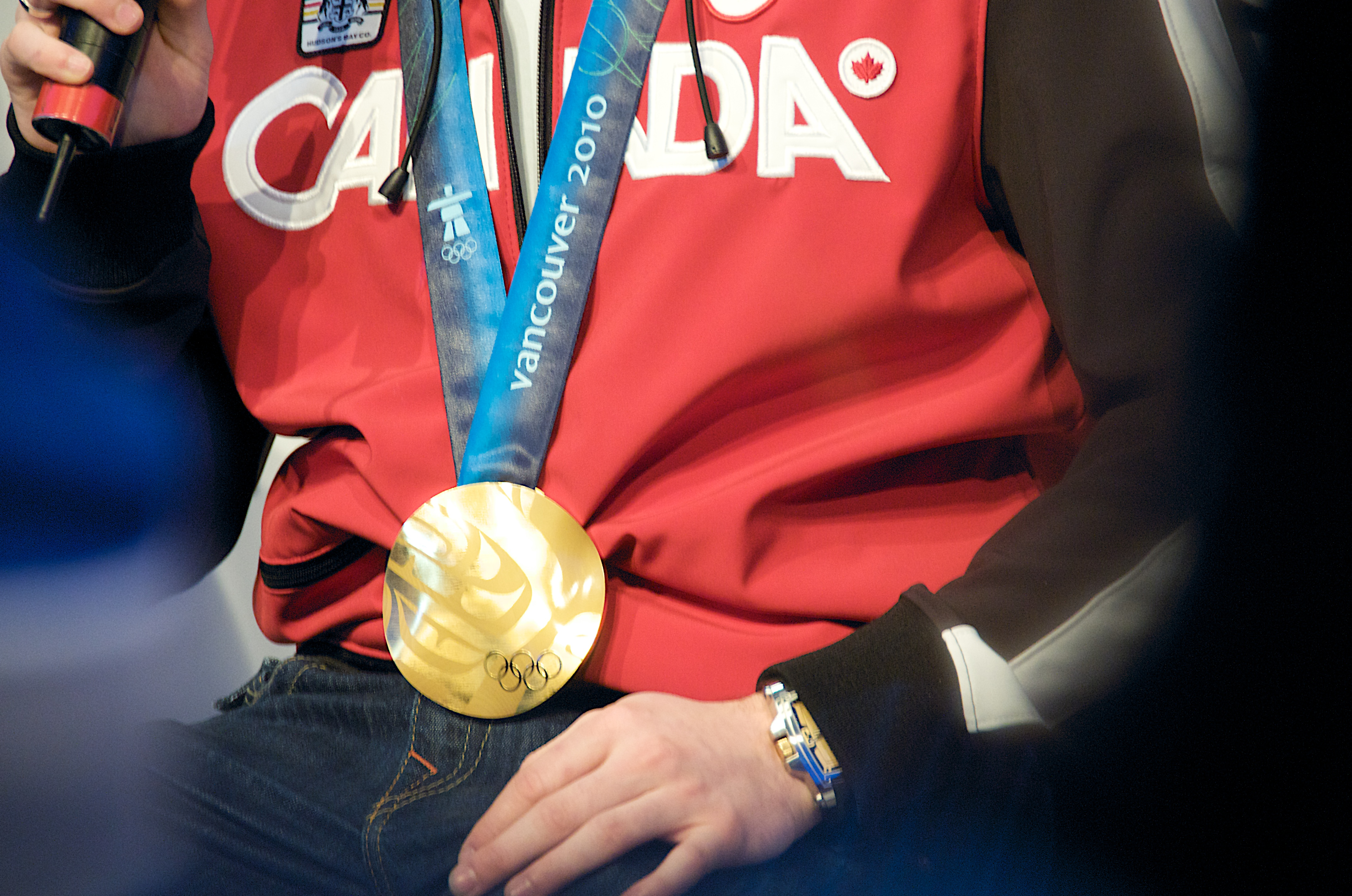 Alexandre Bilodeau with gold medal